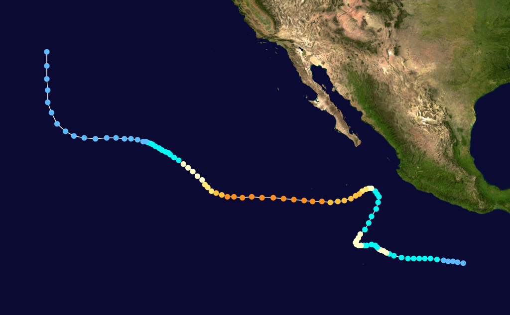 Hurricane Tina (1992) track. Uses the color scheme from the Saffir-Simpson Hurricane Scale.